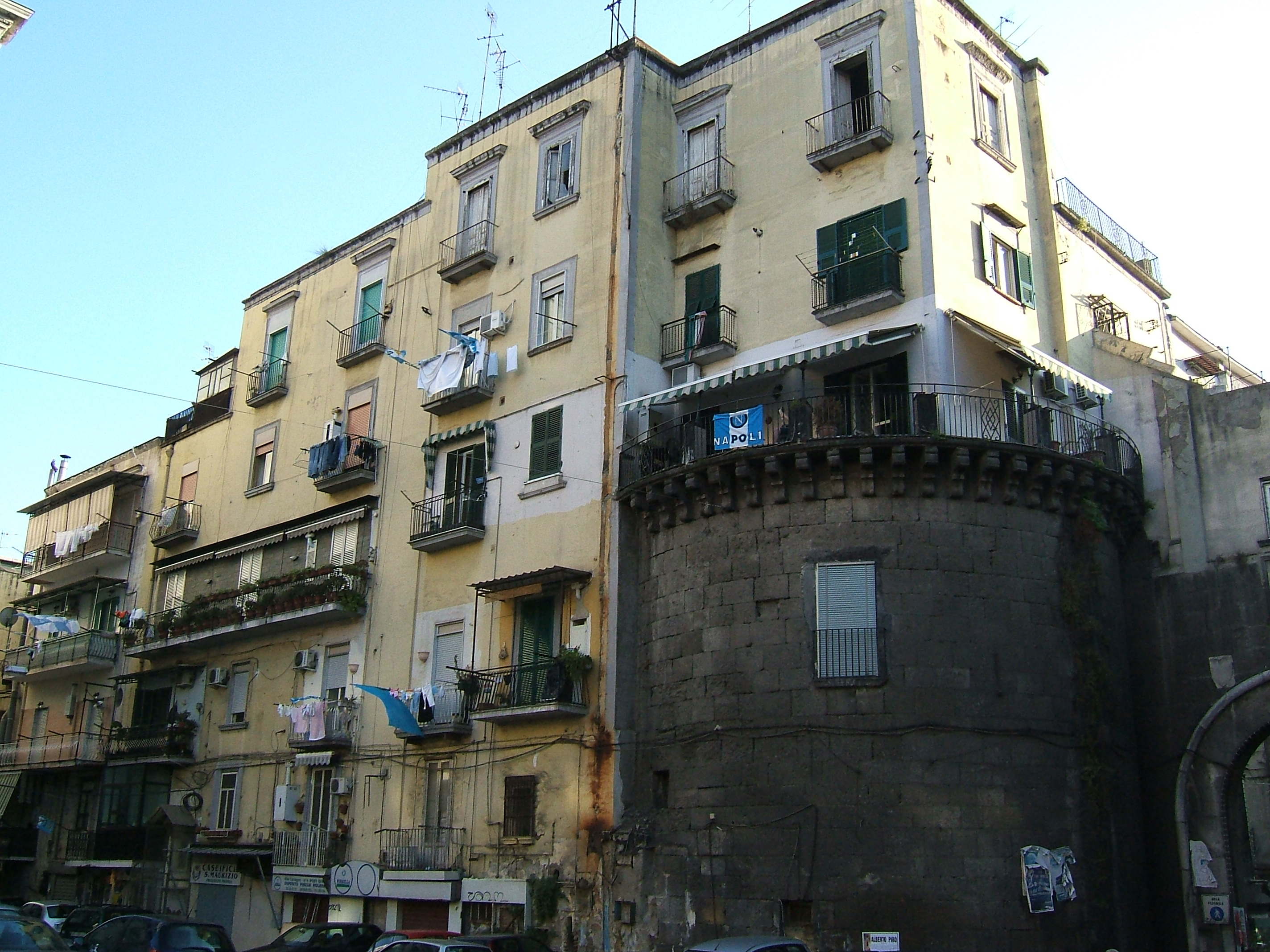 Porta Nolana: Left tower